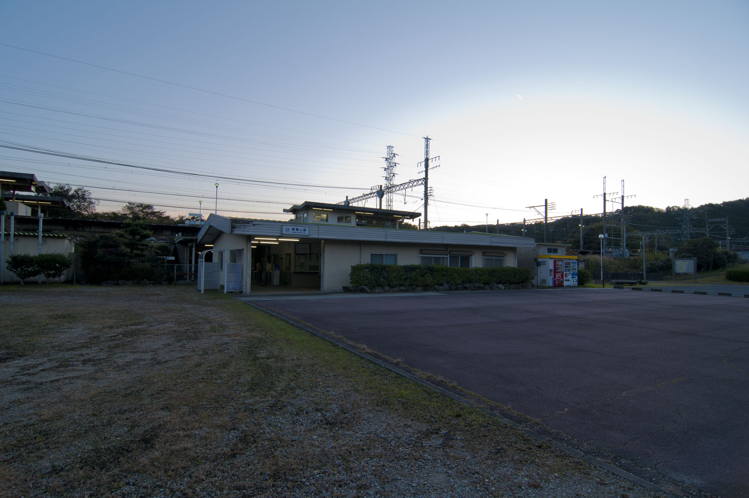 Kintetsu Higashi-Aoyama Station